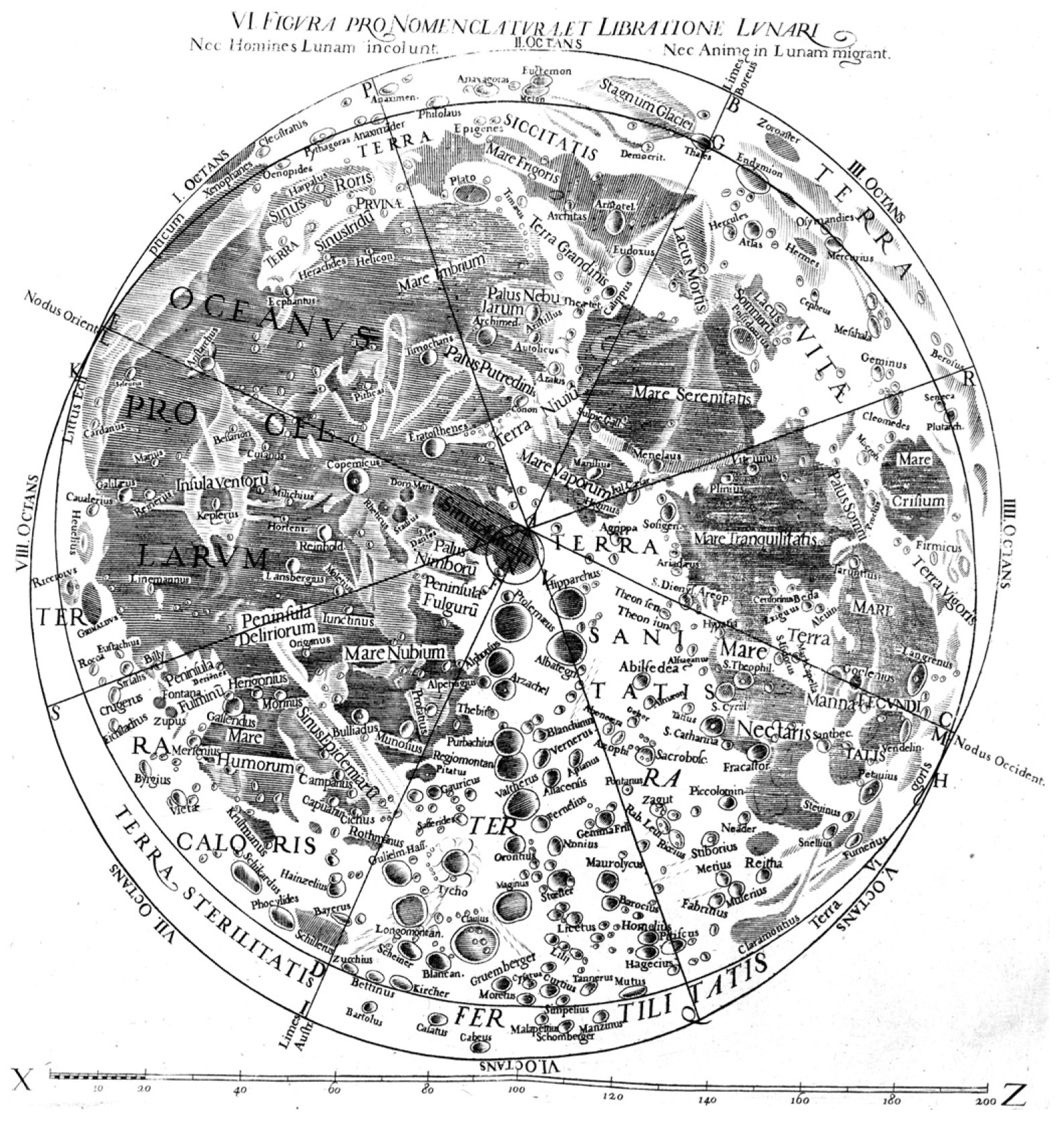 Map of the Moon from G. B. Riccioli's 1651 Almagestum Novum.